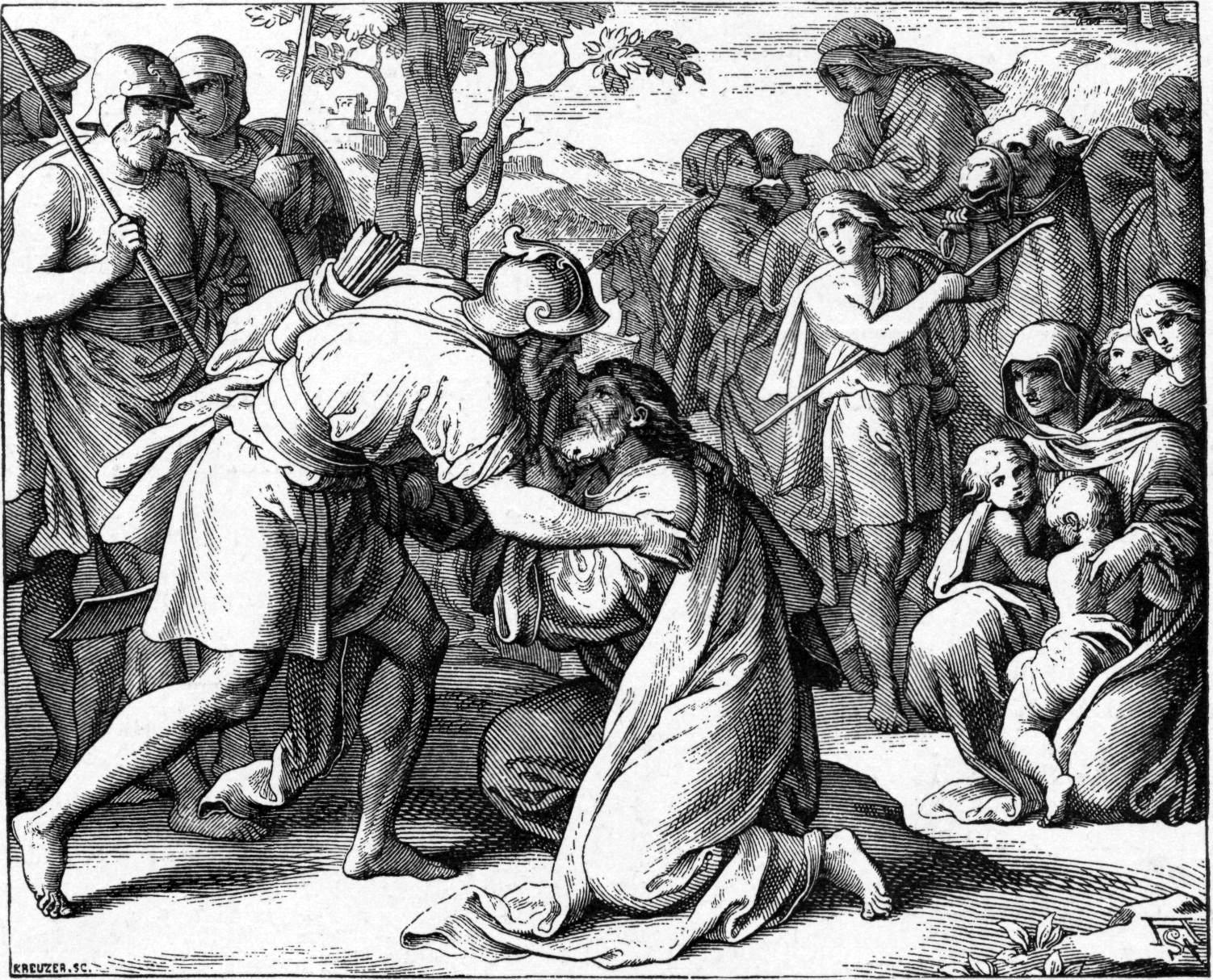 Jacob Meets His Brother Esau; caption: "Jacob meets his brother Esau. He has not seen Esau since the time when he got Esau's blessing. That was many years ago. Esau was very angry with Jacob then, and Jacob was afraid of him. And he went away from his home and lived with Laban, and took Rachel, Laban's daughter, to be his wife. Jacob has been living with Laban ever since that time. But now he wants to go back to his father's house. And Jacob is on his way back, but before he gets there he sees Esau coming toward him. Some men are with Esau, and Jacob is very much afraid. He is afraid Esau will kill him for taking away his blessing. But Esau has forgiven Jacob, and now he runs to him and puts his arms around his neck and kisses him. And they cry together because they are so glad. And Jacob gave Esau a present of some sheep and goats and camels, for Jacob had a great many of these. Afterward Esau went away to his own home, and Jacob came to his father." Illustration from the 1897 Bible Pictures and What They Teach Us: Containing 400 Illustrations from the Old and New Testaments: With brief descriptions by Charles Foster